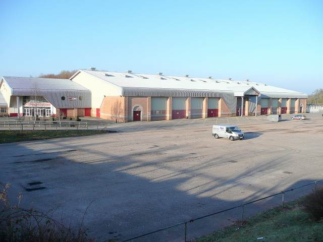 Westpoint Building, Devon County Showground Scene at 8am prior to a trade show taking place in the cavernous building.